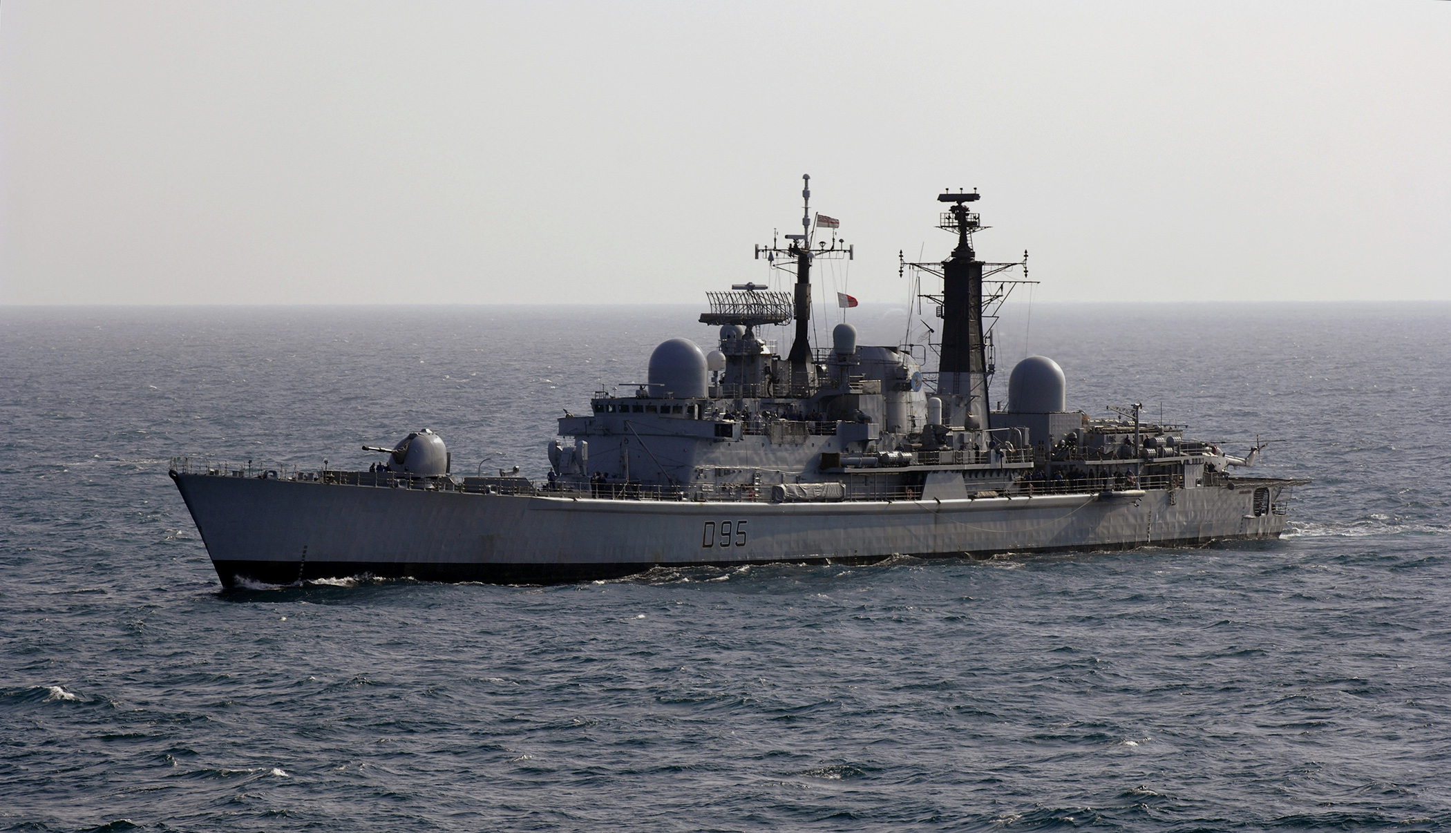 The British destroyer HMS Manchester (D 95) sails beside the Nimitz-class aircraft carrier USS Harry S. Truman (CVN 75) in the Persian Gulf. Truman and embarked Carrier Air Wing (CVW) 3 are on deployment in support of maritime security operations.